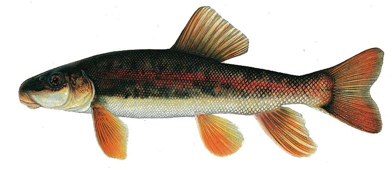 Catostomus microps, Modoc sucker. Illustration by Joe Tomelleri.